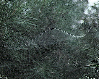 web of Cyrtophora moluccensis from Okinawa.